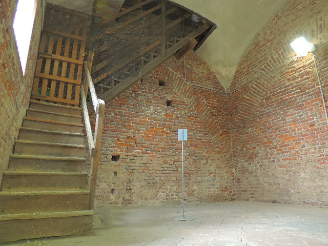 The interior of the Torre del Bramante in Vigevano